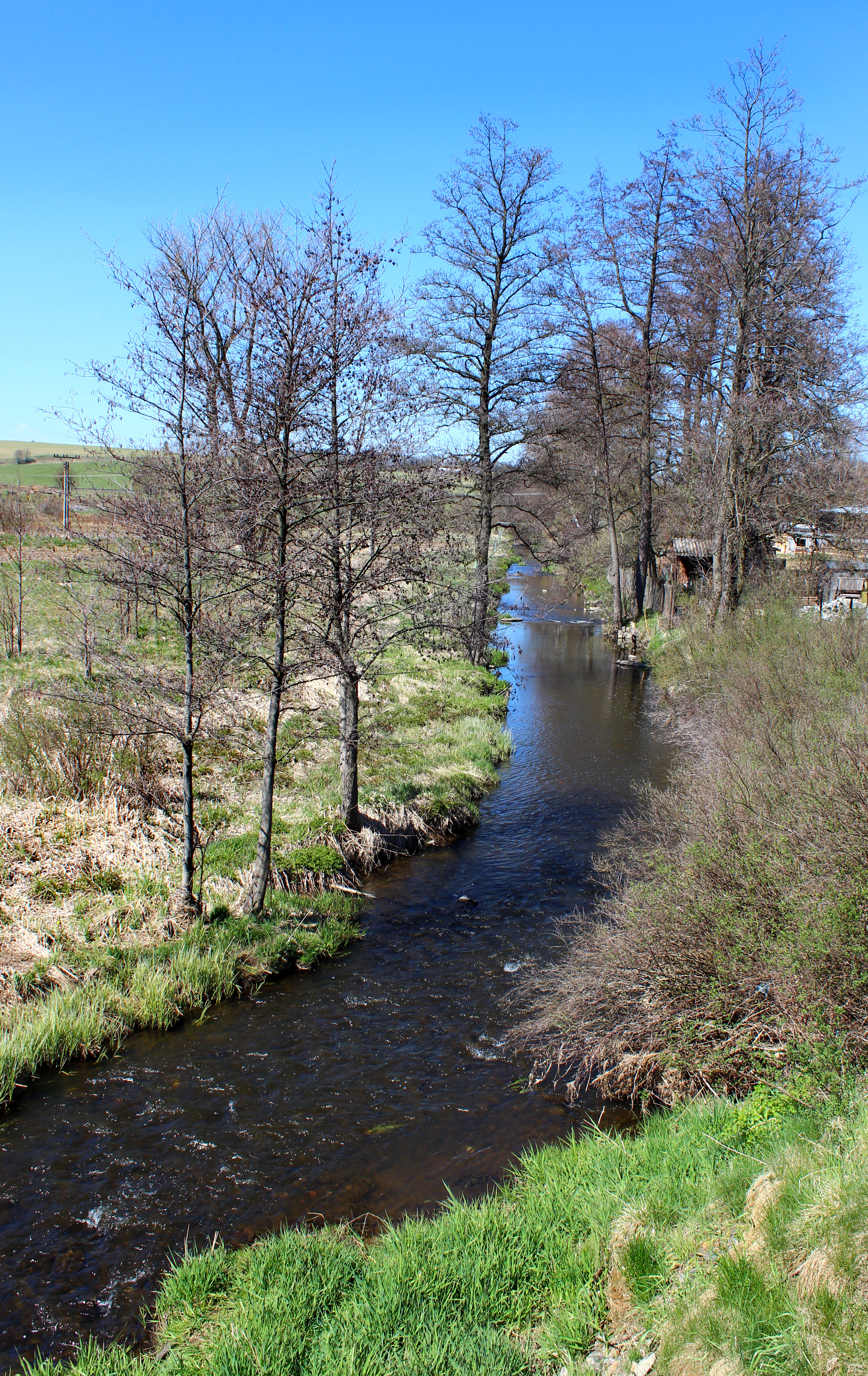 Teplá River in Teplá, Czech Republic